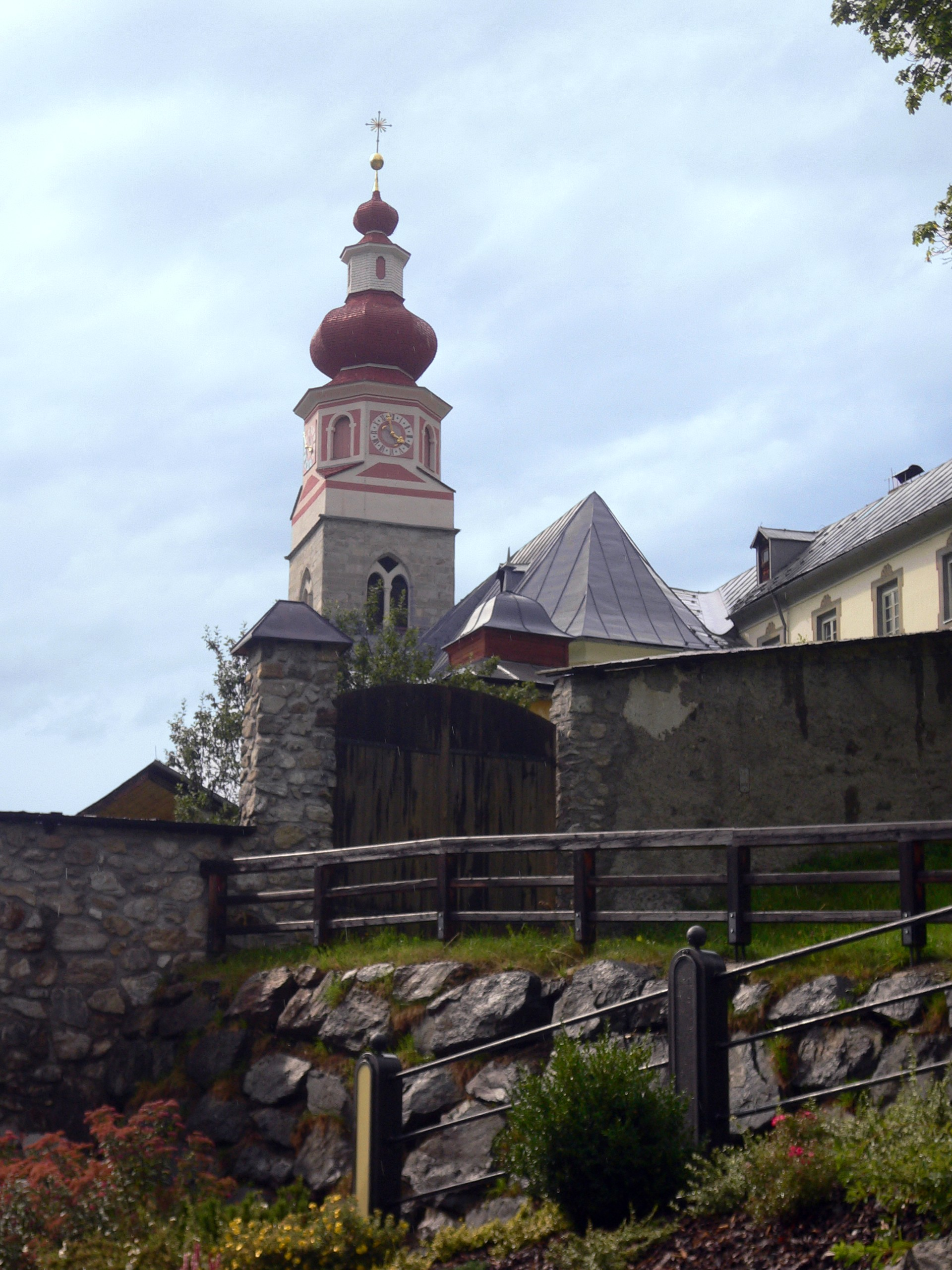 East view at the pilgrimage church Saint Mary`s Our Lady of the Snows at Maria Luggau, municipality Lesachtal, district Hermagor, Carinthia / Austria / EU